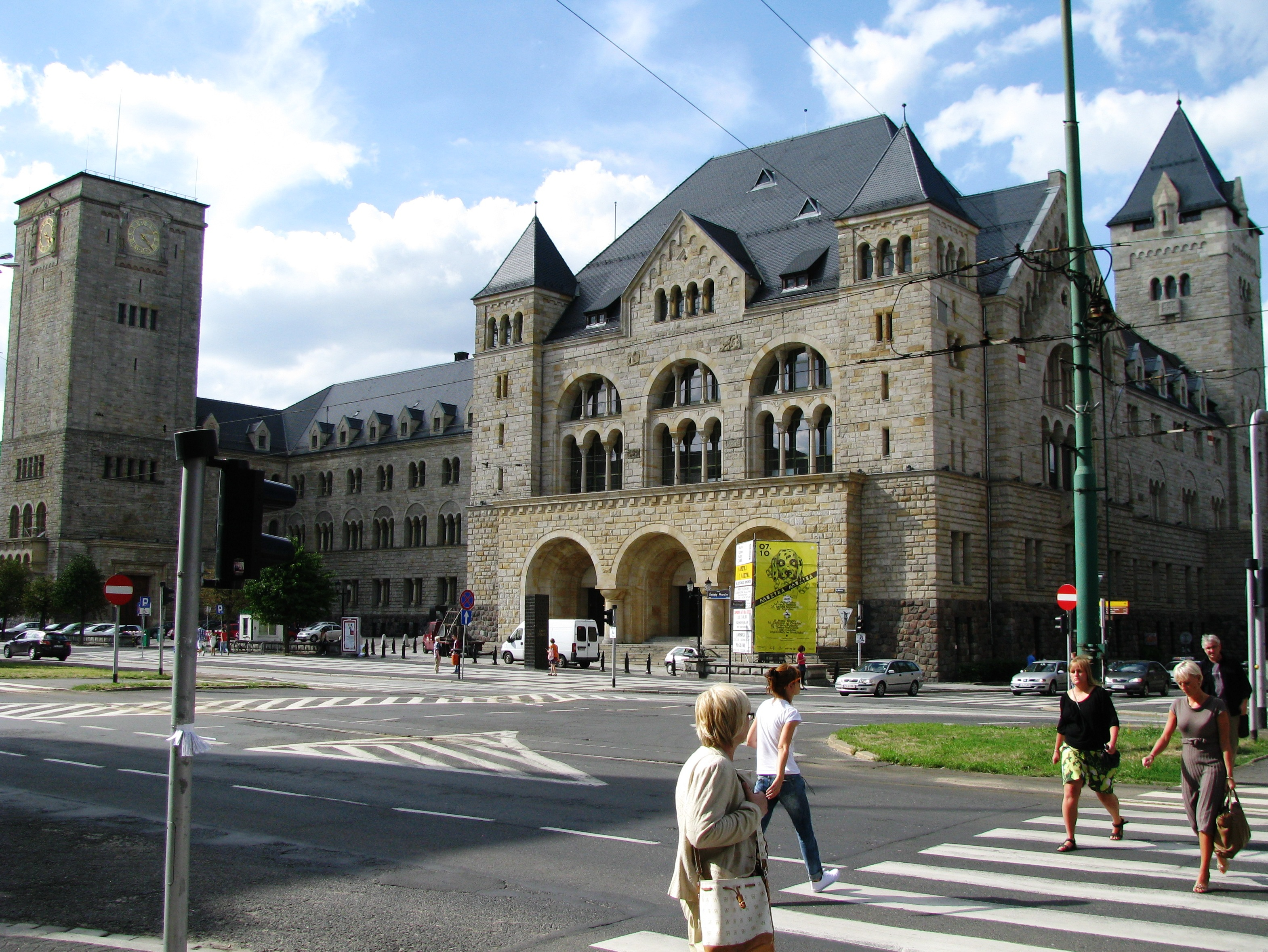 The Imperial Castle, popularly called "Zamek", is a palace in Poznań that since its construction in 1910 has housed government offices. The Scotch Mist Gallery contains many photographs of historic buildings, monuments and memorials of Poland.